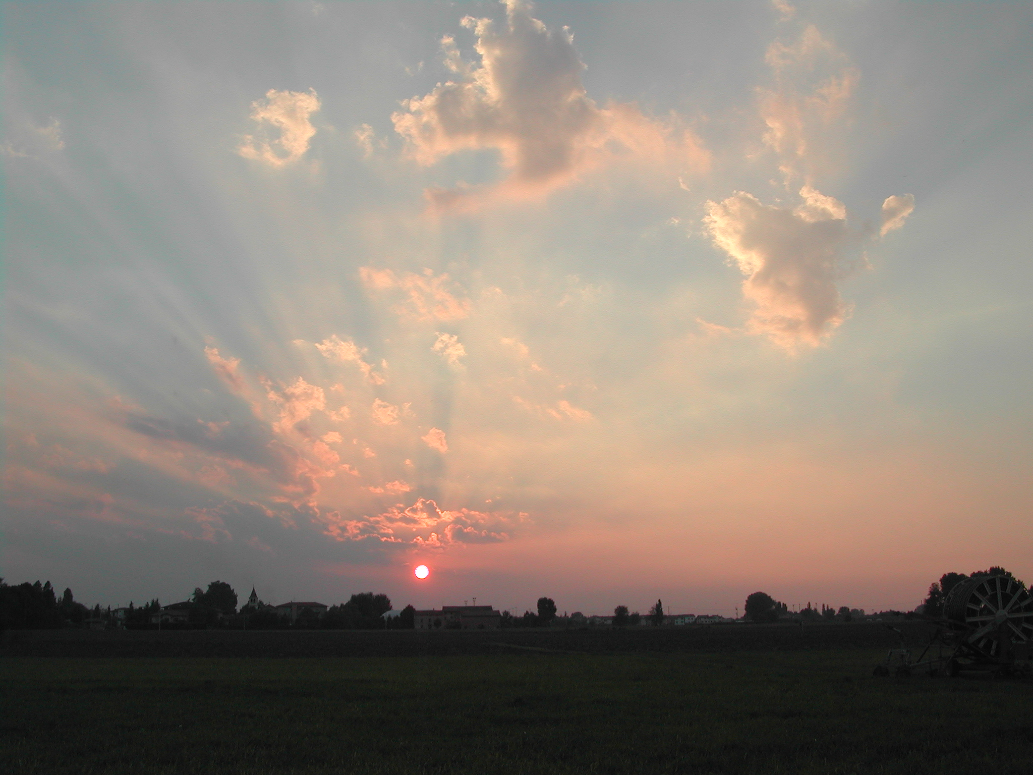 Basilicanova, skyline al tramonto